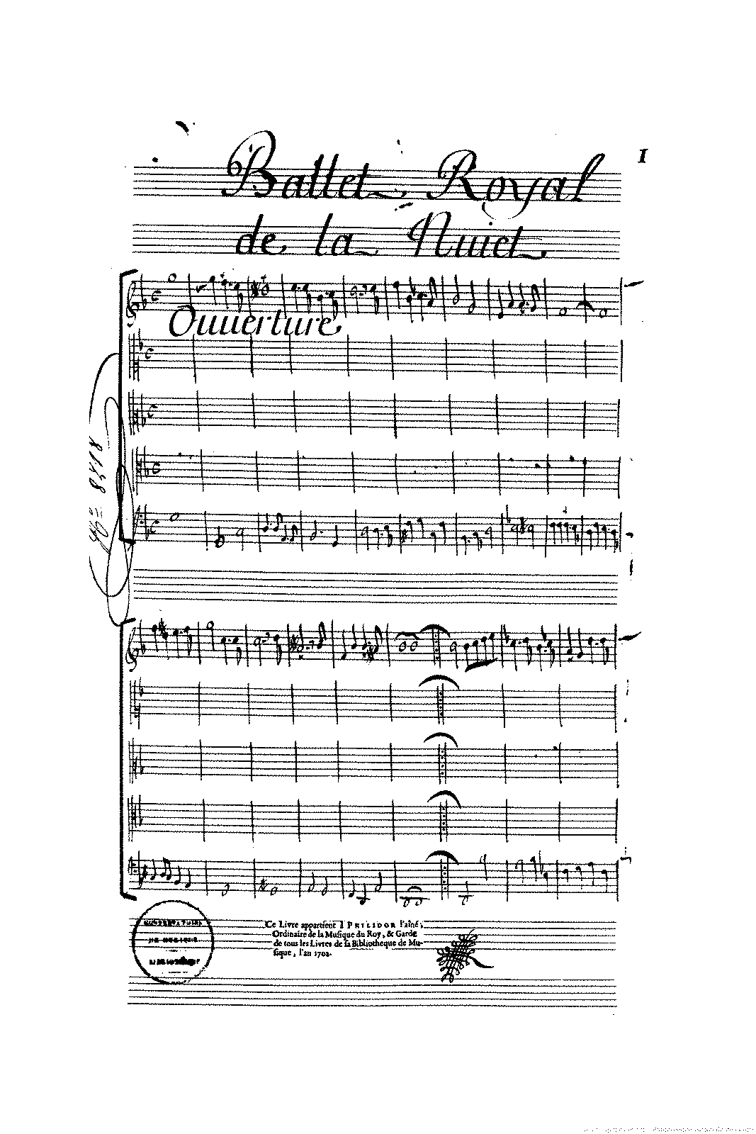 The title page of the Ballet de la Nuit (1653), by: Jean de Cambefort, text by: Isaac de Bensérade